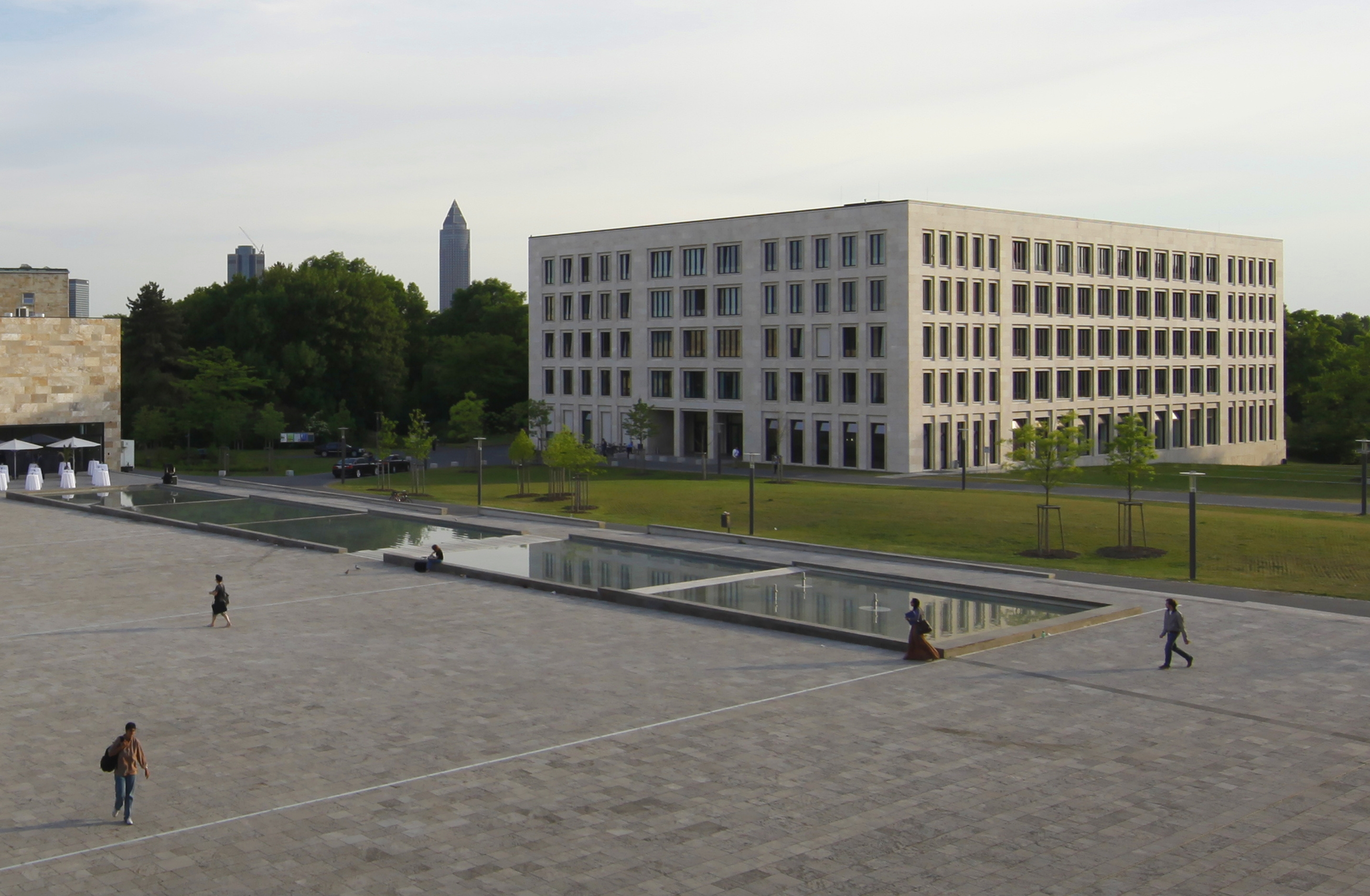 House of Finance, Frankfurt, Architektenbüro Kleihues + Kleihues